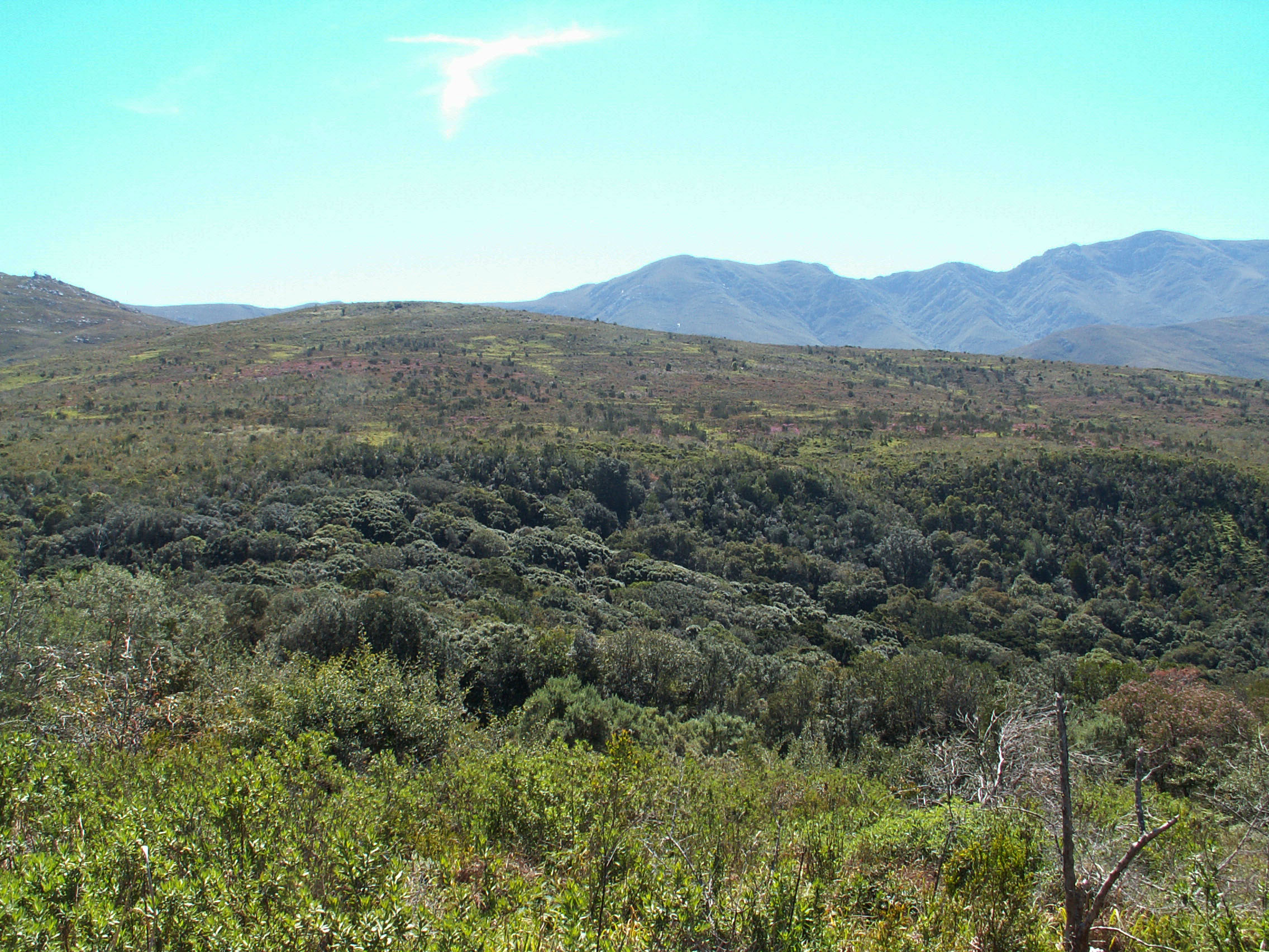 Grootvadersbosch Nature Reserve in the Barrydale area of the Langeberg Range, Western Cape, Southafrica